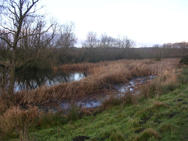 Oxbow lake, Low Butterby, near Durham. An excellent example of an oxbow lake, occupying a former channel of the river Wear.